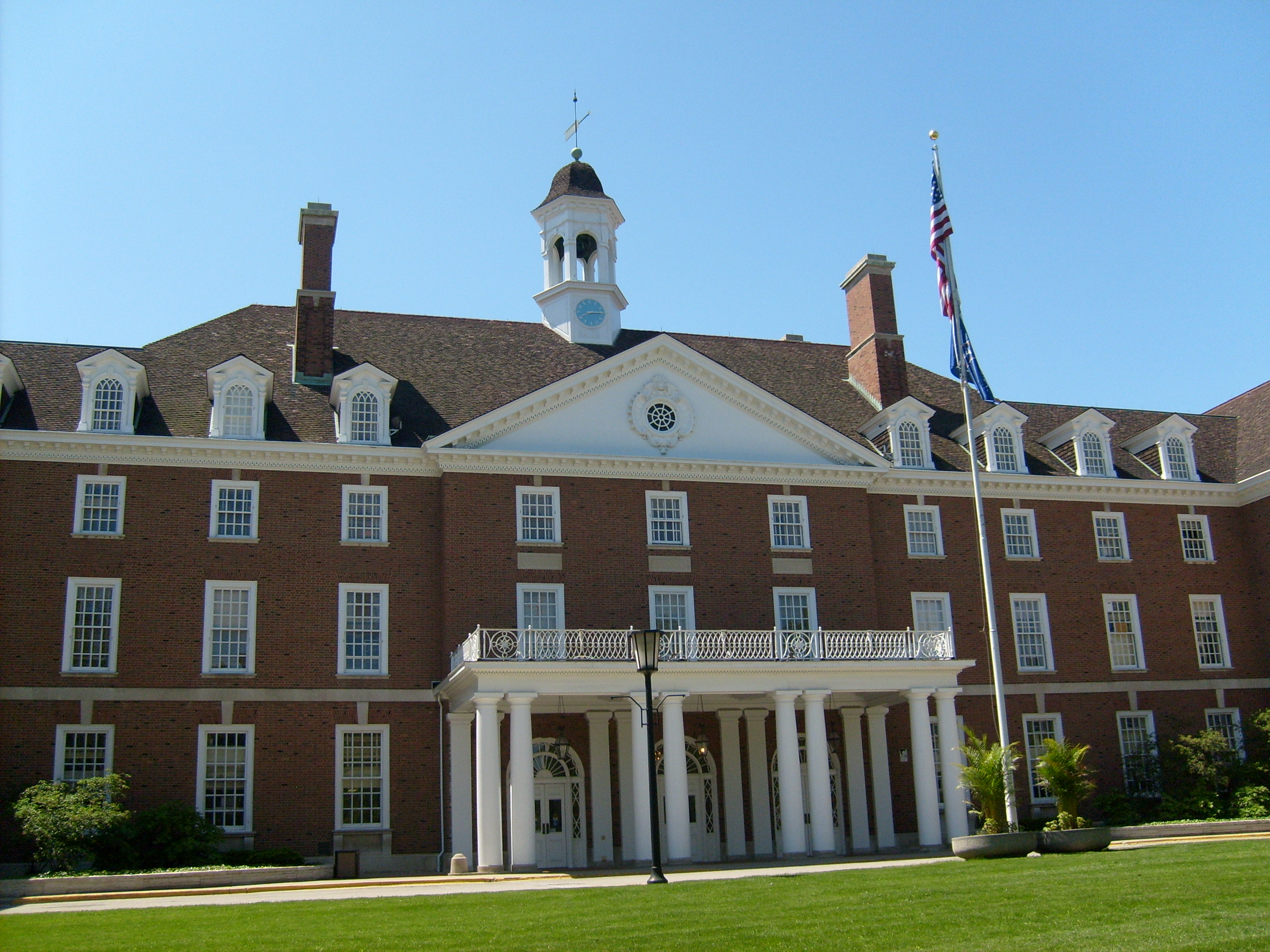 Student Union Building at University of Illinois at Urbana-Champaign